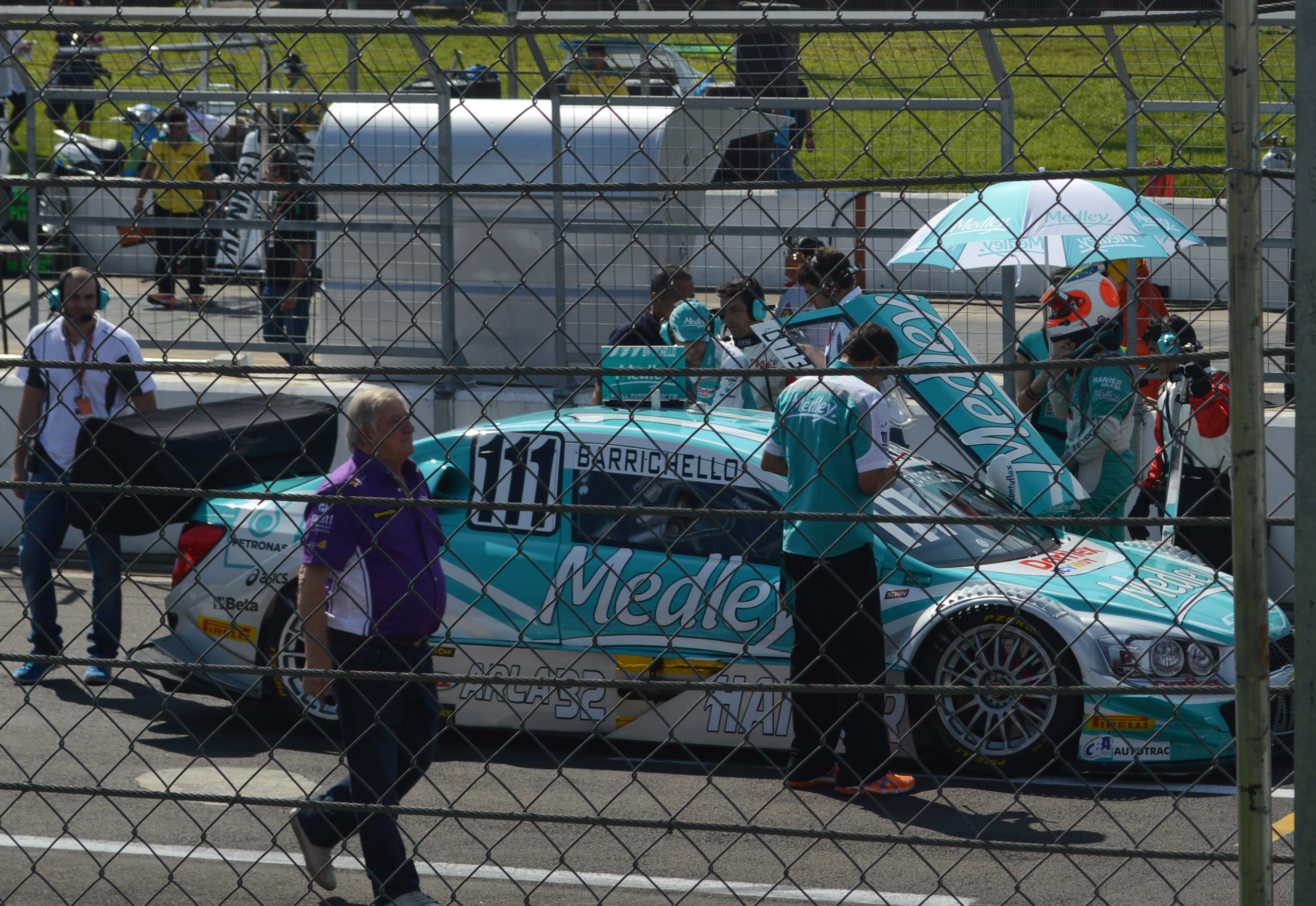 Rubens Barrichello no Velopark em 2014, na Stock Car